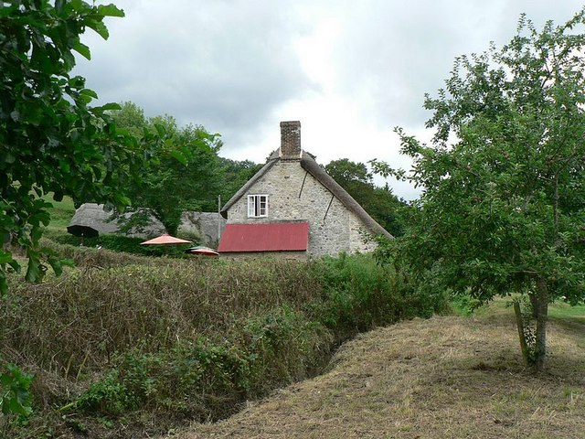 The Old Bakery, Branscombe. Viewed from the orchard, on the path to Manor Mill. The Old Bakery was the last traditional working bakery in Devon when the business closed in 1987. The National Trust has preserved the baking equipment and the building serves as a tea-room.